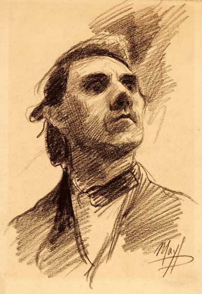 Caricature sketch of artist Alexander John Drysdale by Robert Bledsoe Mayfield.